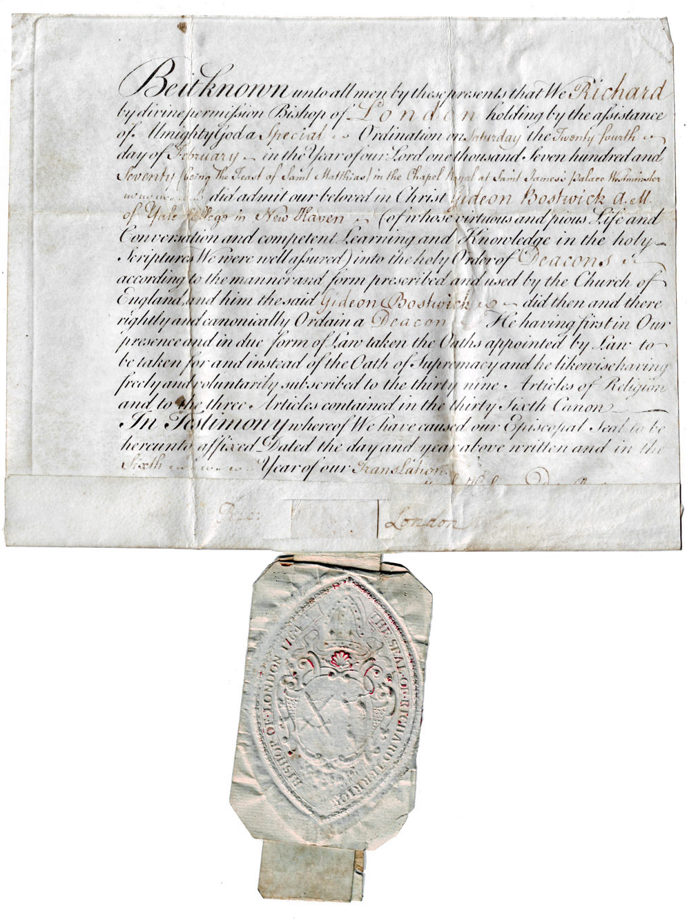 Church of England Certificate of Ordination of Deacon Gideon Bostwick, A.M, of Yale College in New Haven, given at the Chapel Royal at St. James' Palace, Westminster, London, by Richard Terrick, Bishop of London, February 24, 1770. The Cooper Collections of Historical Documents